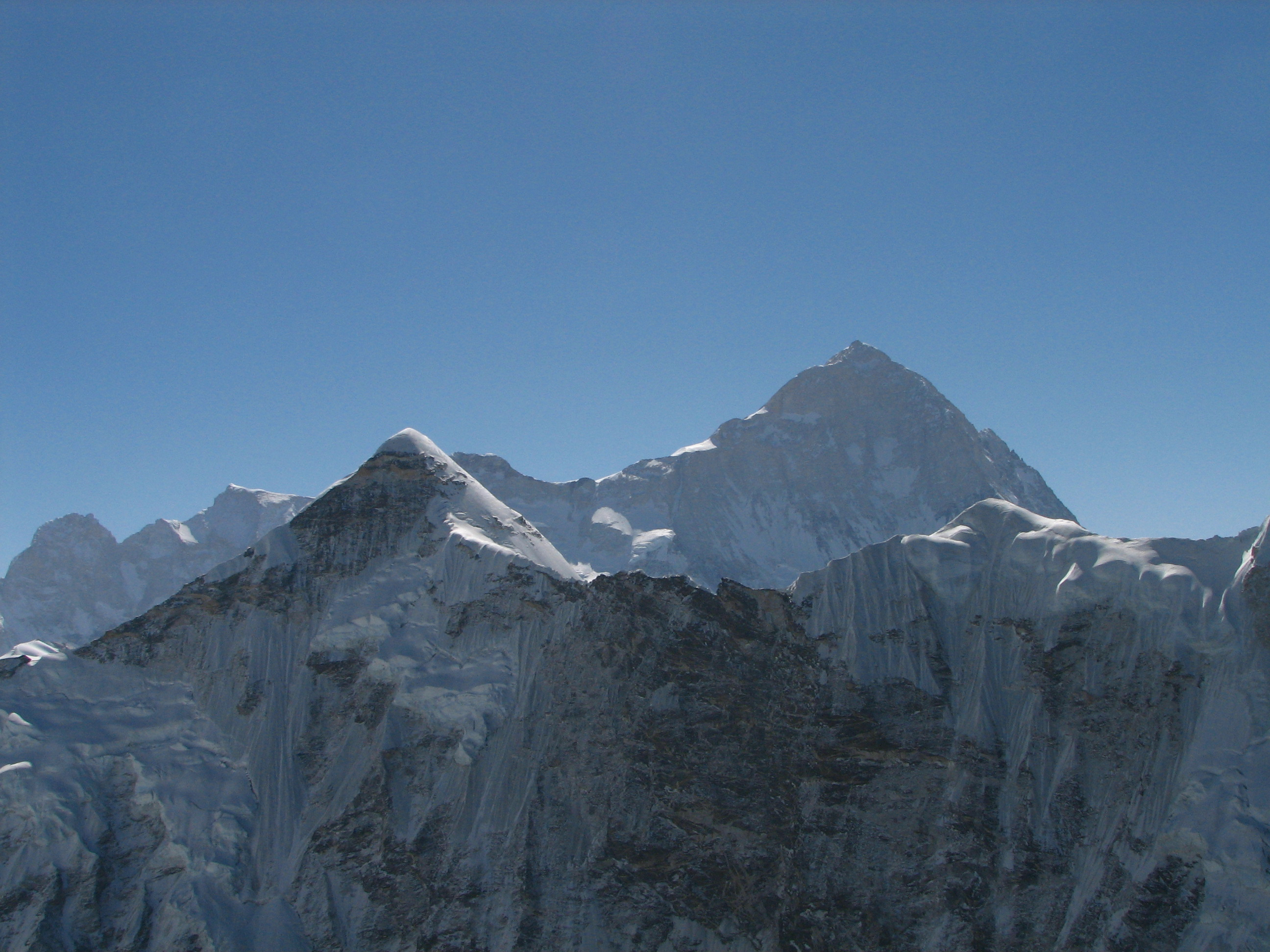 Makalu as seen from Island Peak, Nepal (Cho Polu in the foreground)